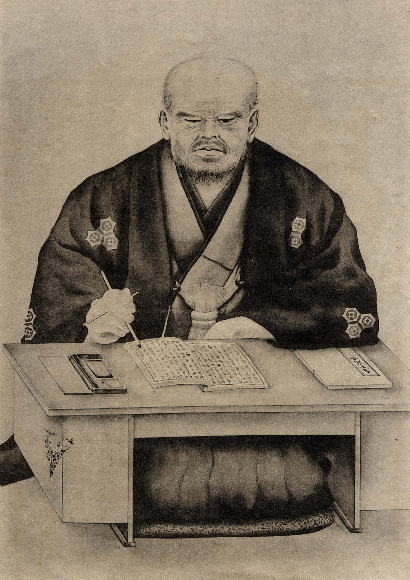 Yasui Sokken(安井息軒) was a Japanese confusian in Edo period.